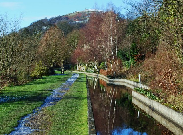 Winter days on the Canal near to Garth, Wrexham/Wrecsam, Wales. The Llangollen Branch of the Shropshire Union Canal at Trevor had a sad history of bank slips and leaks. The most severe incident occurred in this area when the burst bank and associated debris slipped onto the railway line below causing a train to be derailed leading to the death of the locomotive crew. The modern canal engineer has got over these problems by bolting a concrete trough to the hillside to prevent this movement. I'm sure Thomas Telford would have used this technique if it had been available to him 210 years ago. In the distance is a view of Castell Dinas Bran above Llangollen.